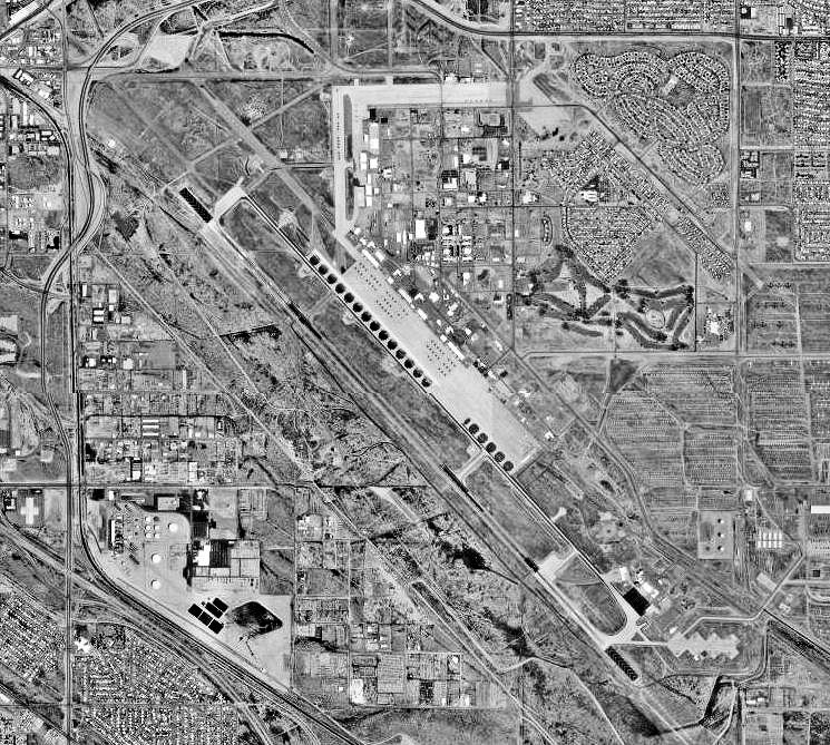 USGS orthophoto of Davis-Monthan Air Force Base in Arizona, United States